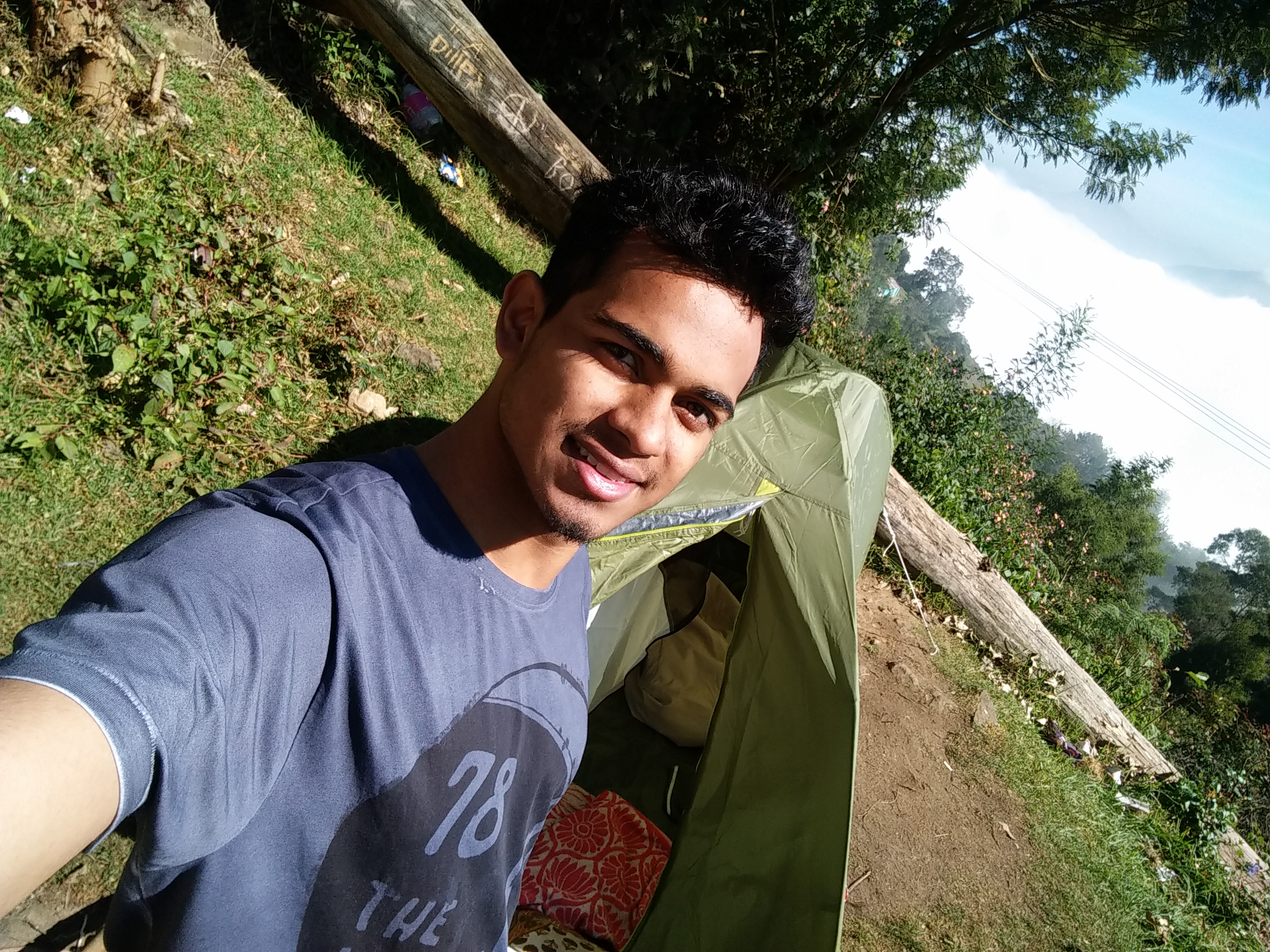 pic taken at Vattakanal